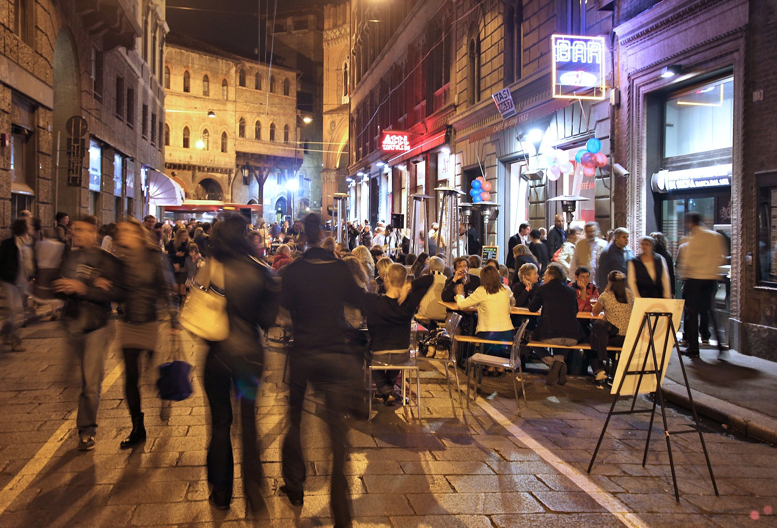 Night street view at Via Guglielmo Marconi in Bologna, Italy.